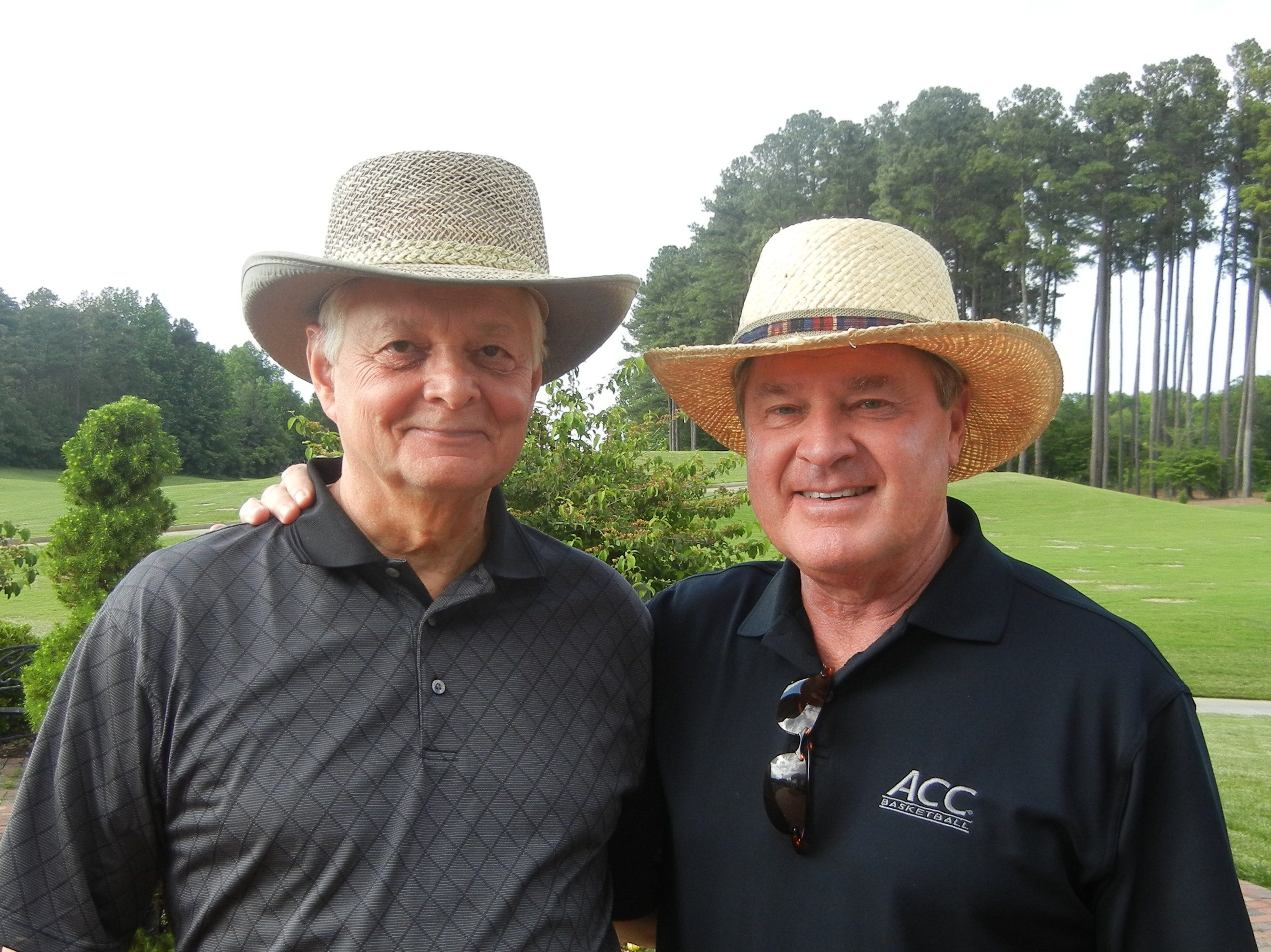 Ken Haines with ACC commissioner John Swofford